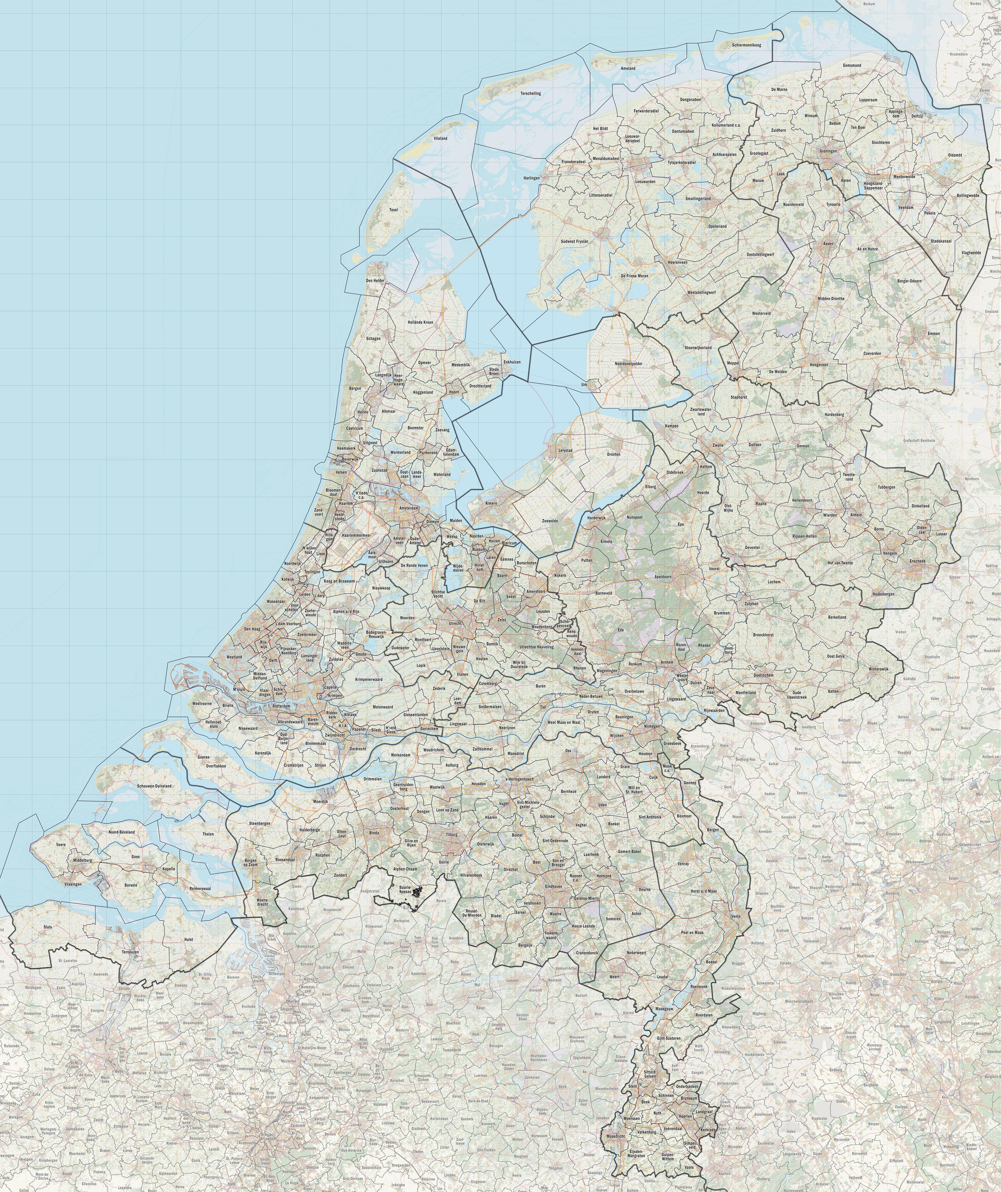 Map of Dutch municipalities including provincial borders, as per 1/1/2015. Geo-data from BRT (Basisregistratie Topografie, open data, Kadaster) and OpenStreetMap. Each grid square measures 10x10 km.